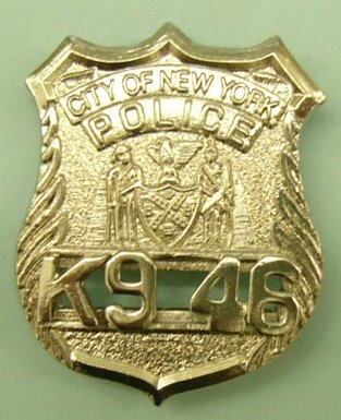 A badge of a police dog within the New York Police Department (K 9 unit), dog 46